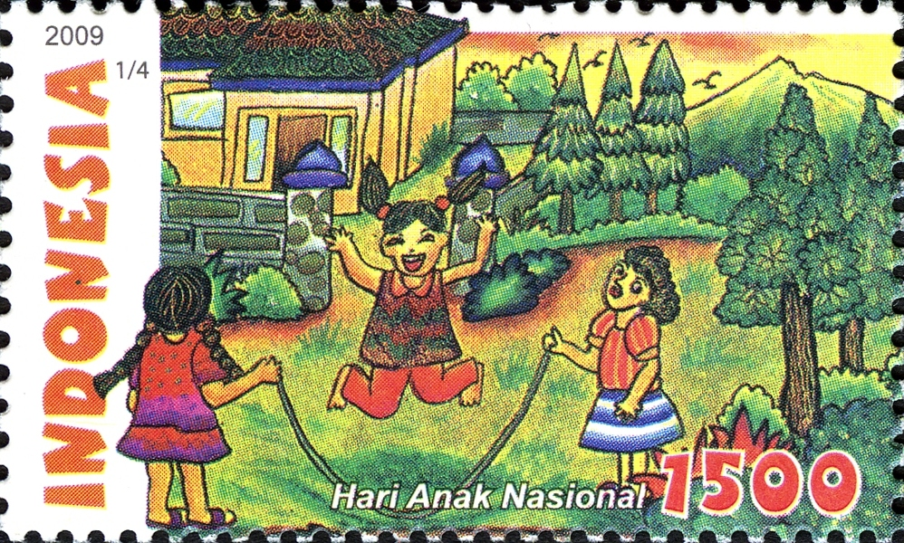 Stamps of Indonesia